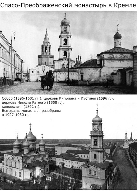 Nikola Ratniy church, Kiprian and Iiustinia church and Spasskiy tower in Kazan Kremlin